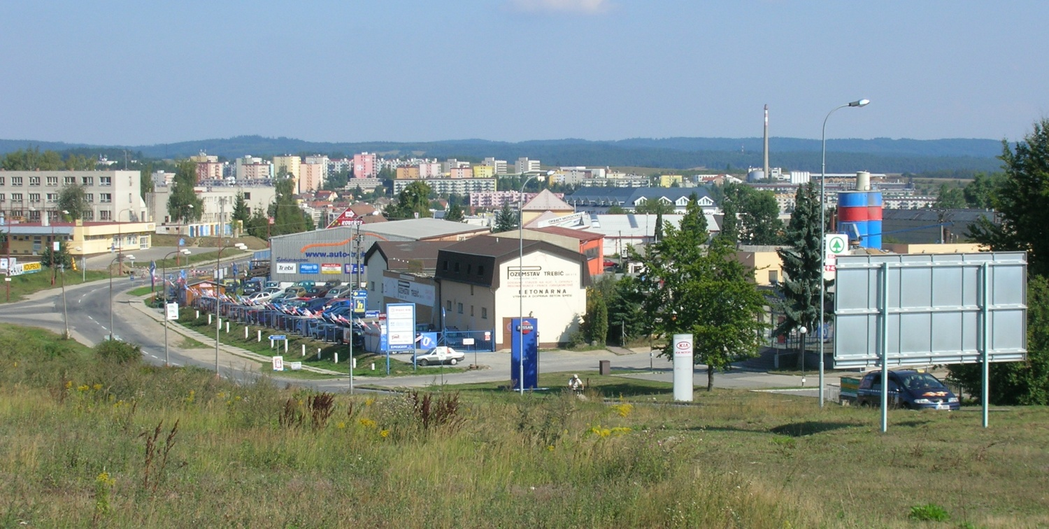 Třebíč-Jejkov. Southwest part.